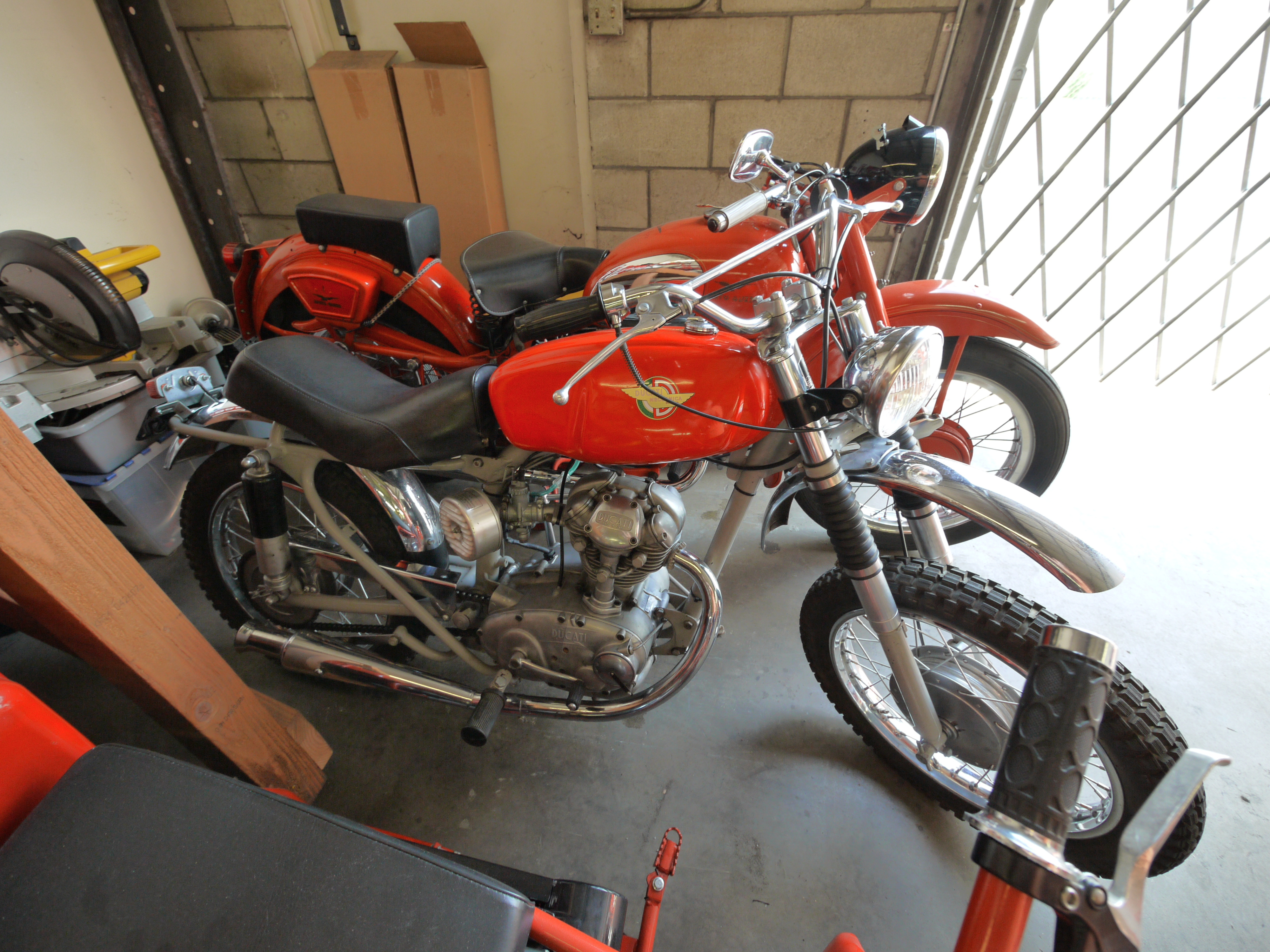 Ducati 250 Scrambler America, 1966